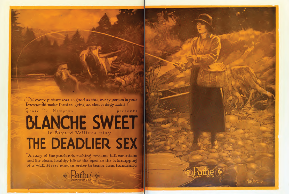 Blanche Sweet in the American comedy film The Deadlier Sex (1920) directed by Robert Thornby, from Film Daily 1920.